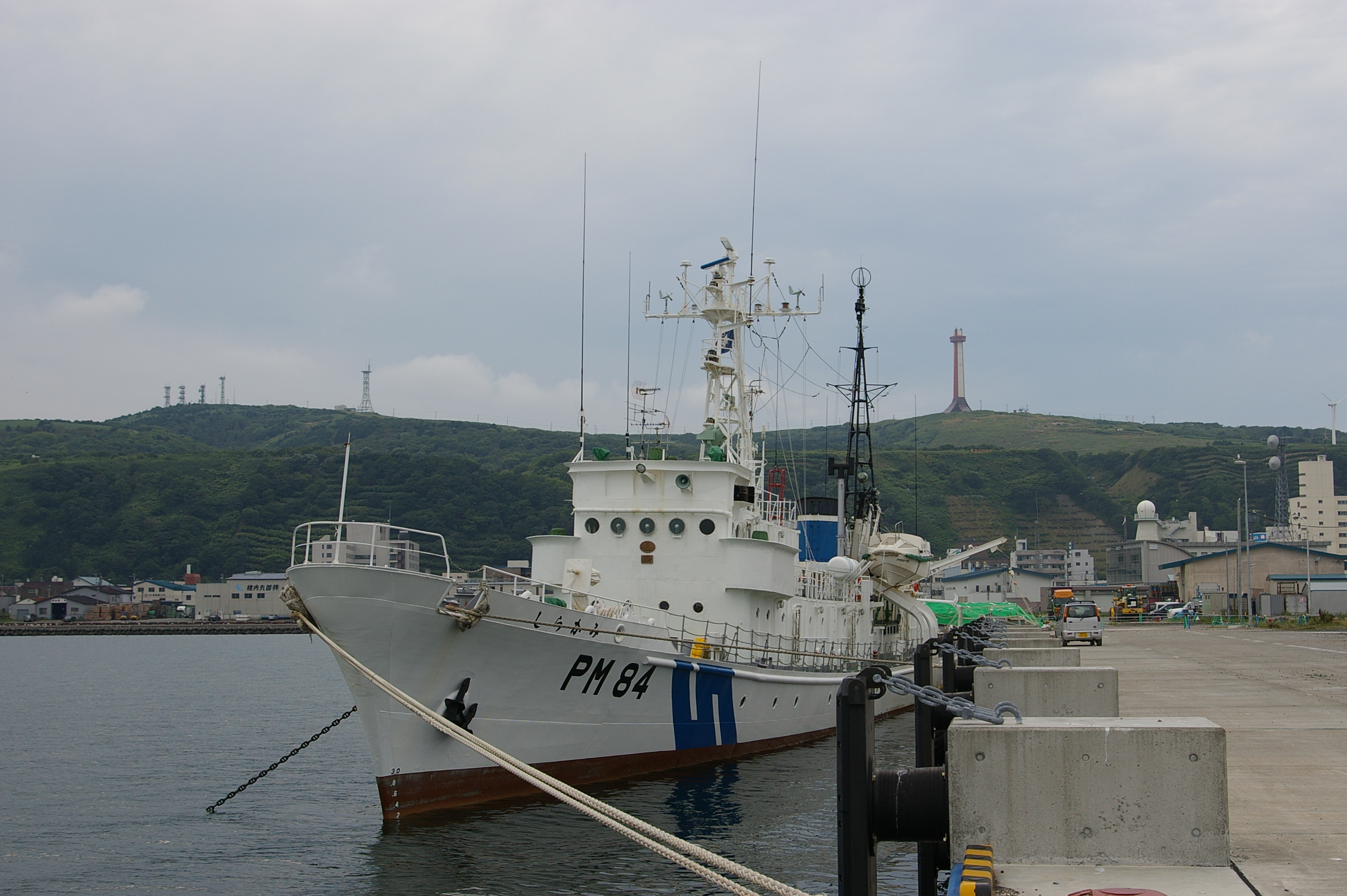 Japan coast guard PM84 SHIRAKAMI, under anchorage in the Wakkanai harbor.